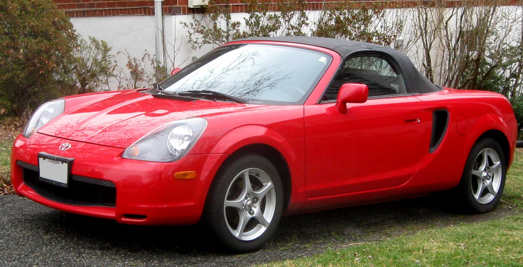 Toyota MR2 photographed in Rockville, Maryland, USA.